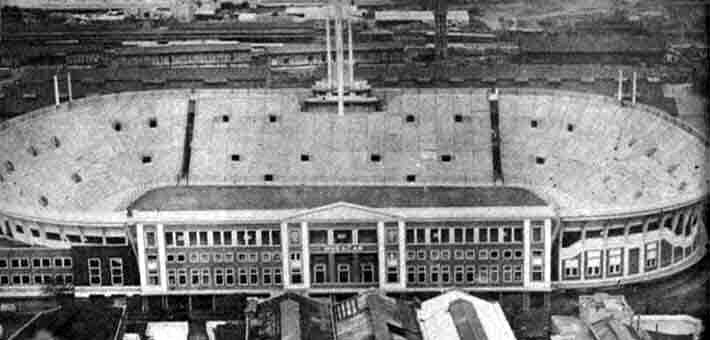 Tomás A. Ducó stadium, property of C.A. Huracán. Photo taken the day of its inauguration.